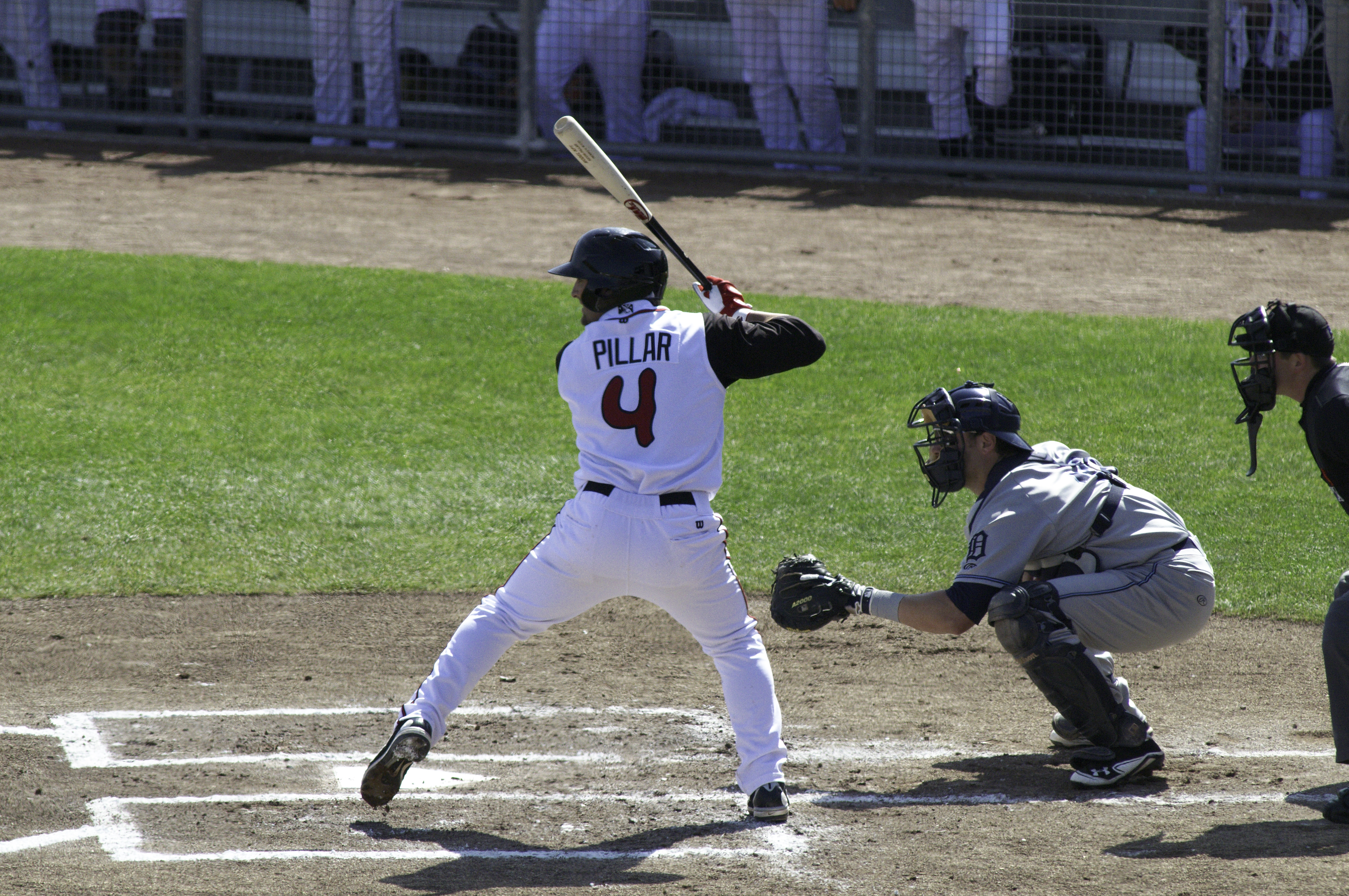 Ballplayer Kevin Pillar